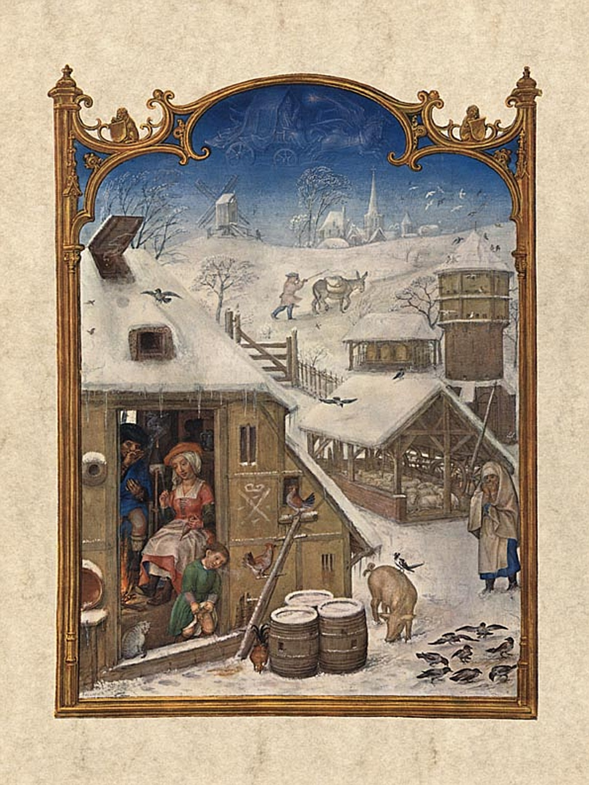 February, Brevarium Grimani, fol. 2v (Flemish)